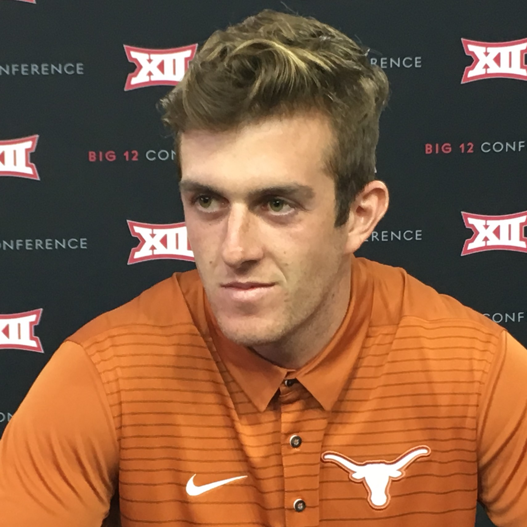 Michael Dickson, punter for the Texas Longhorns football team, at the 2017 Big 12 Conference Media Days in Frisco, Texas.